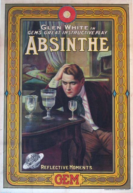 Poster for the American film Absinthe (1913) with Glen White.